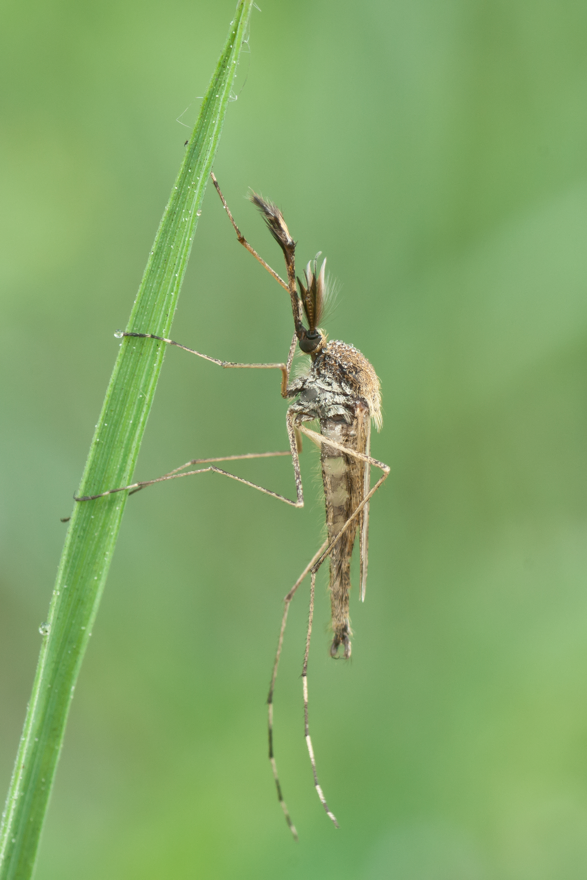 Mosquito (from the Spanish or Portuguese word for little fly) is a common insect in the family Culicidae (from the Latin culex meaning midge or gnat).